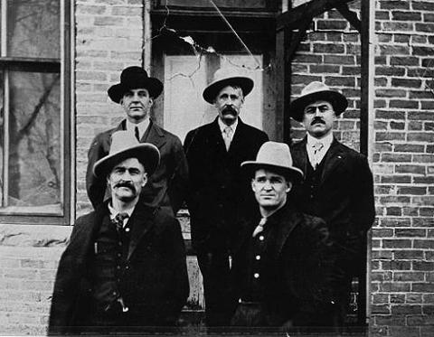 Photograph of the defendants in the Spring Creek Raid case in custody at Basin, Wyoming. Clockwise from top left: Herb Brink, Ed Eaton, George Saban, Tom Dixon, Milton Alexander. Washakie Museum photo. Photo taken between May 3 and November 20, 1909 when the prisoners were being held for trial in Basin, Wyoming.